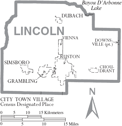 Map of Lincoln Parish, Louisiana, United States with municipal boundaries